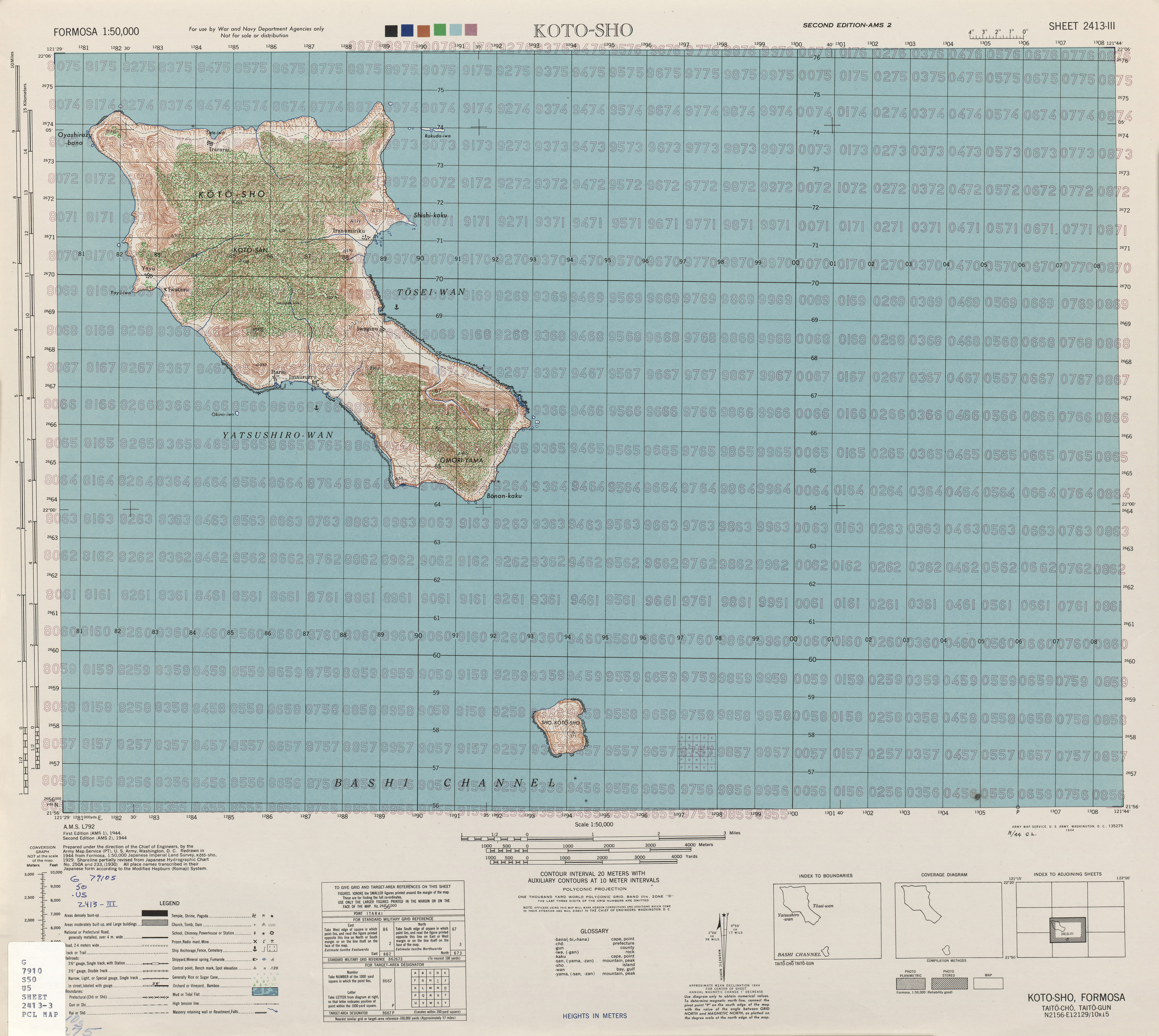 Map from Formosa (Taiwan) 1:50,000 AMS Series L792